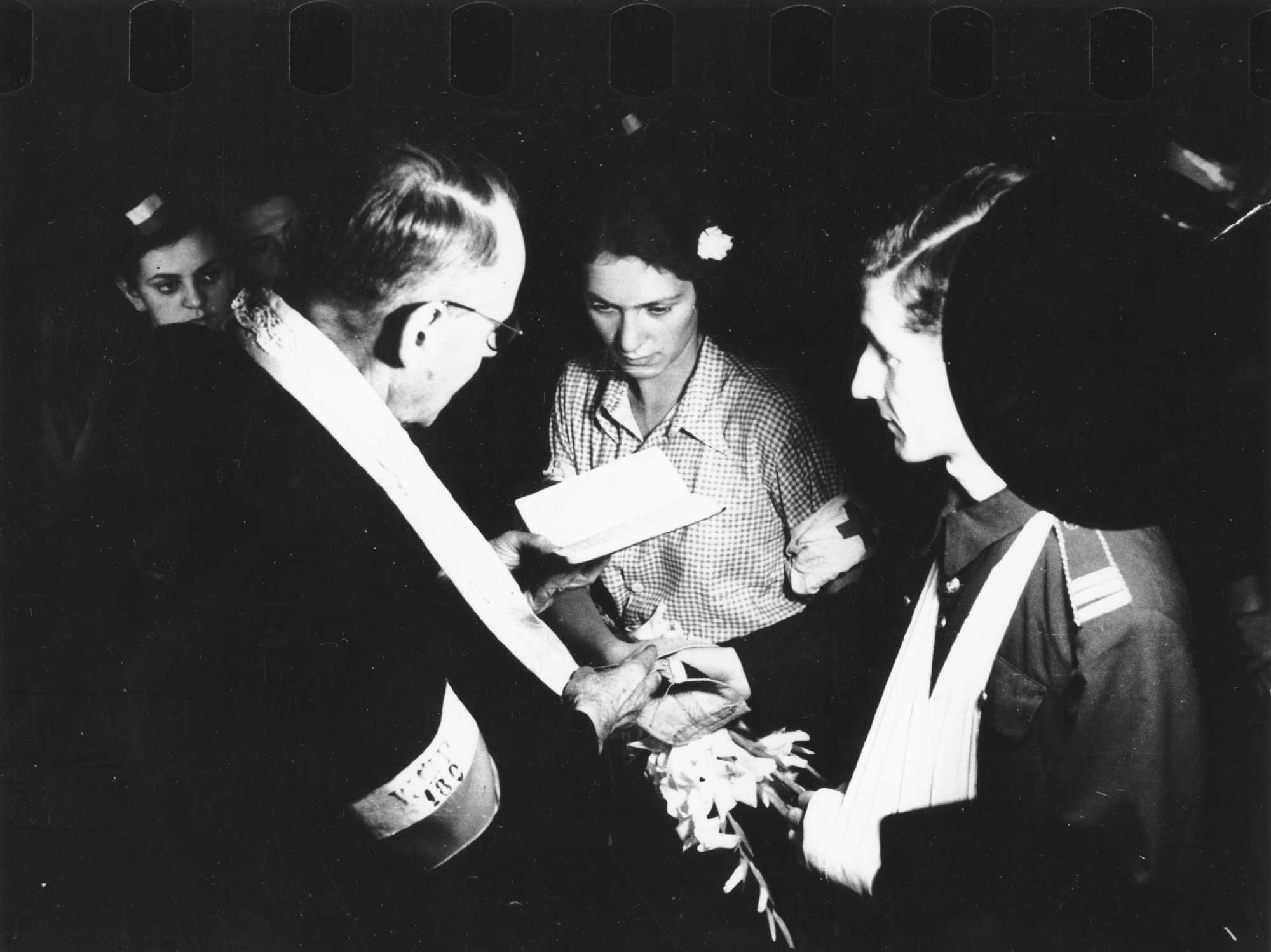 WarsawUprising: Wedding of nurse Alicja Treutler "Jarmuż" and cadet-officer Bolesław Biega "Pałąk", from "Kiliński" batalion, ministered by Wiktor Potrzebski "Corda" on August 13, 1944 in a temporary chapel on 11 Moniuszko Street.